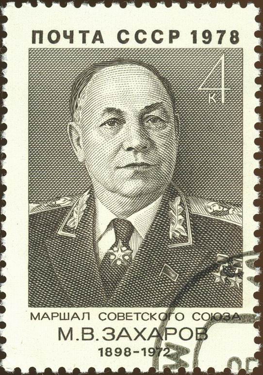 A USSR stamp, Military persons of the USSR